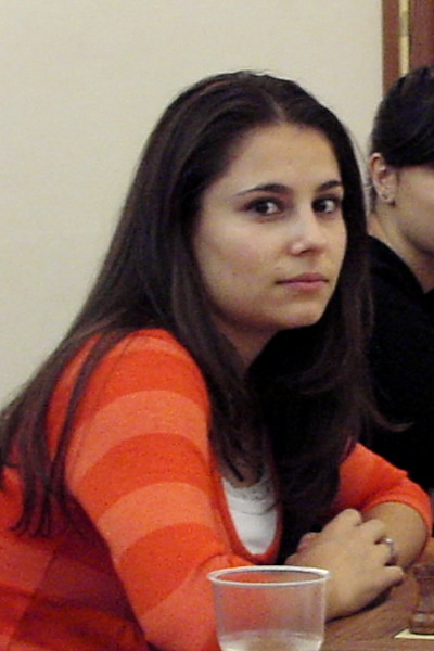 WIM Zehra Topel (Turkey), Heraklion 2007